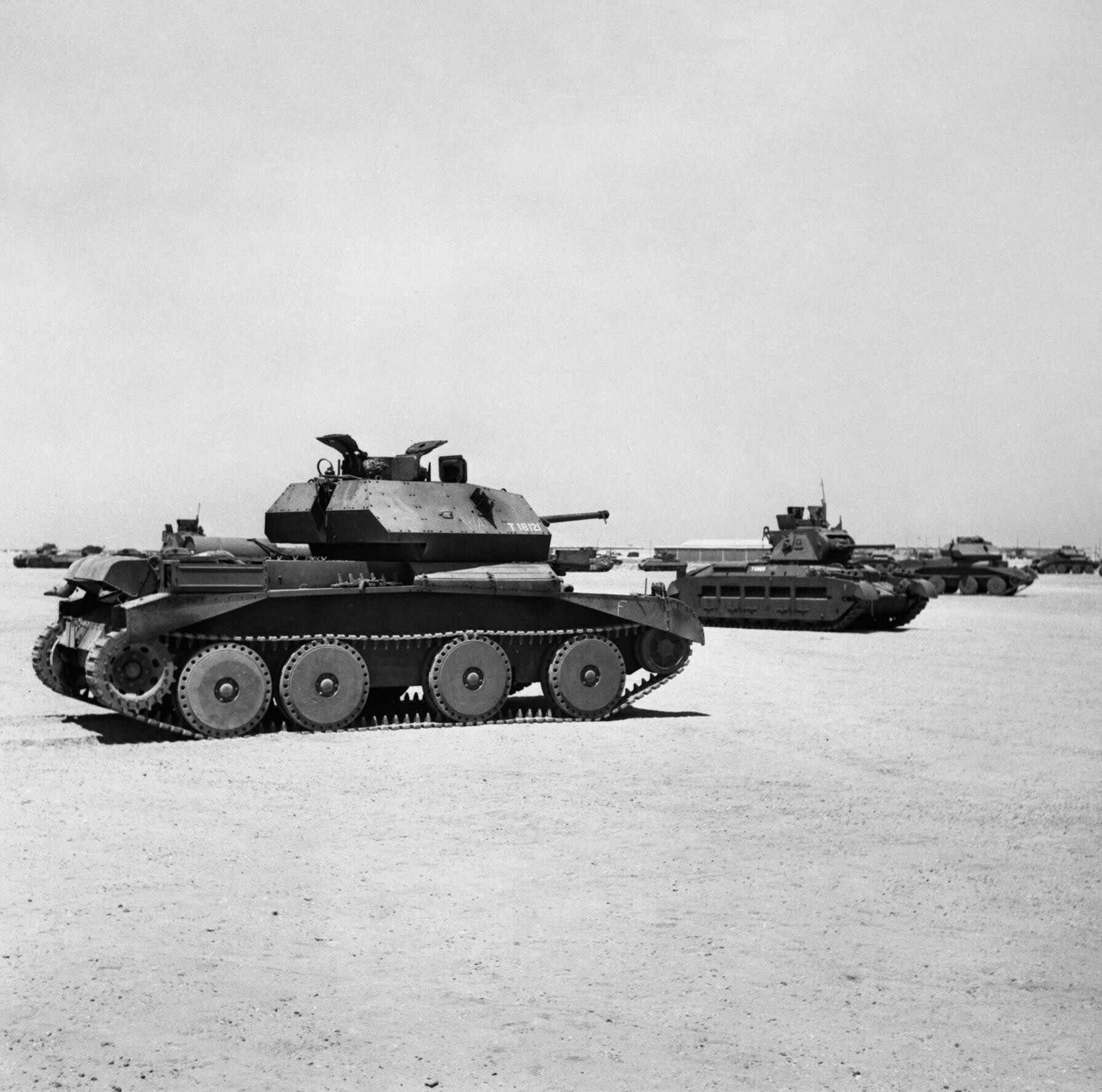 THE BRITISH ARMY IN NORTH AFRICA 1941; An A13 Cruiser Mk IV and a Matilda tank at a depot in Egypt, 5 September 1941.